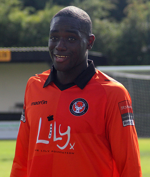 Luke Medley in action for Walton Casuals in 2015.